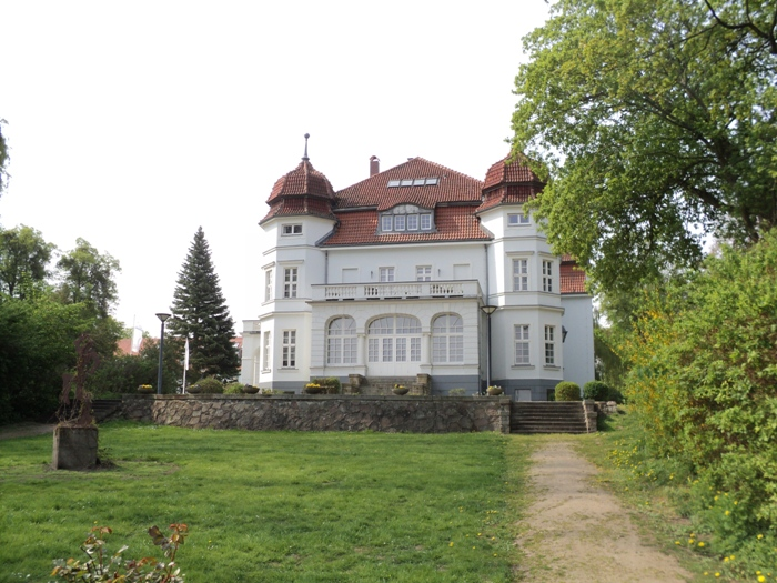 Castle in Torgelow, directly on the lake